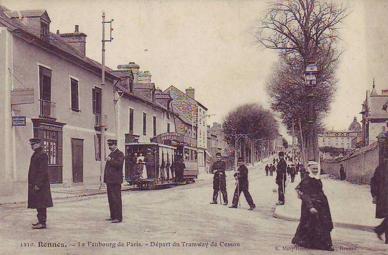 Tramway Electrique de Rennes